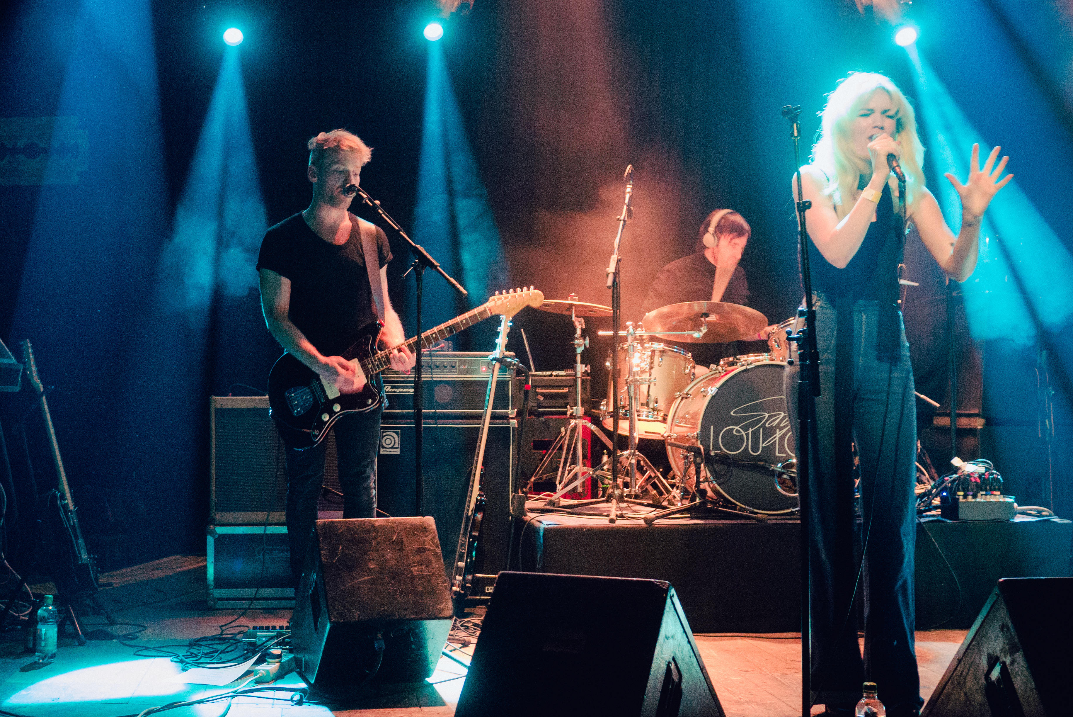 Say Lou Lou playing at the "introducing" show at theÜbel&Gefährlich in Hamburg. in 2014